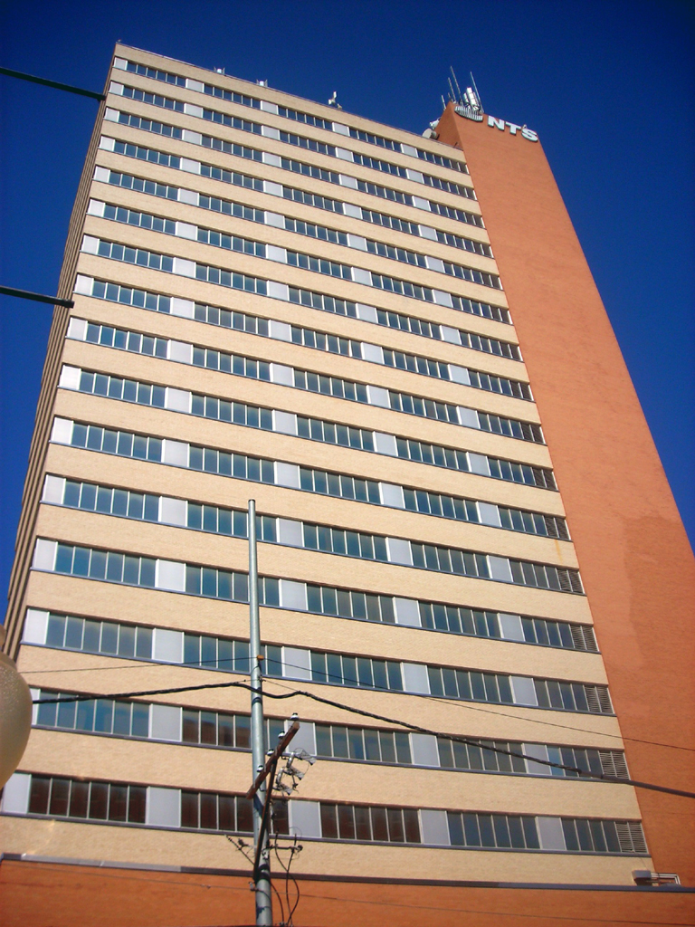 Storm damage still visible on the east side of the NTS Tower in downtown Lubbock.